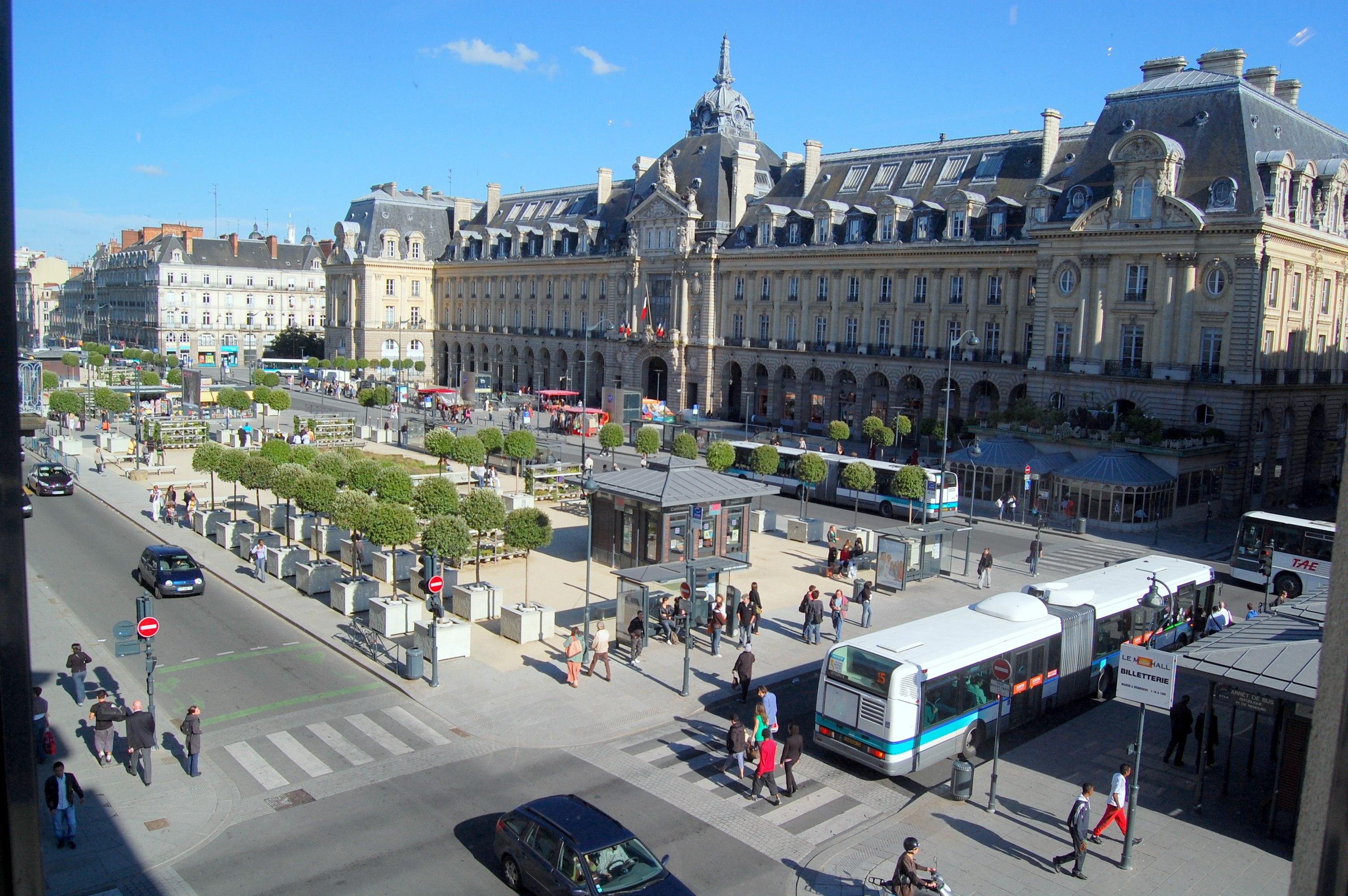 Rennes (France) : Republique square and Commerce Palace